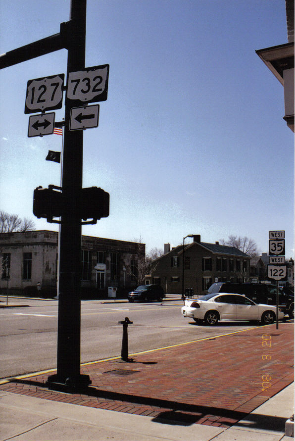 View of the north end of Ohio SR 732 in Eaton Ohio Note US 35 in the State Shield/